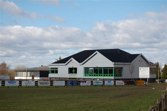 Cambuslang RFC Cambuslang RFC play their home games here,Coats Park Langlea Road Cambuslang.